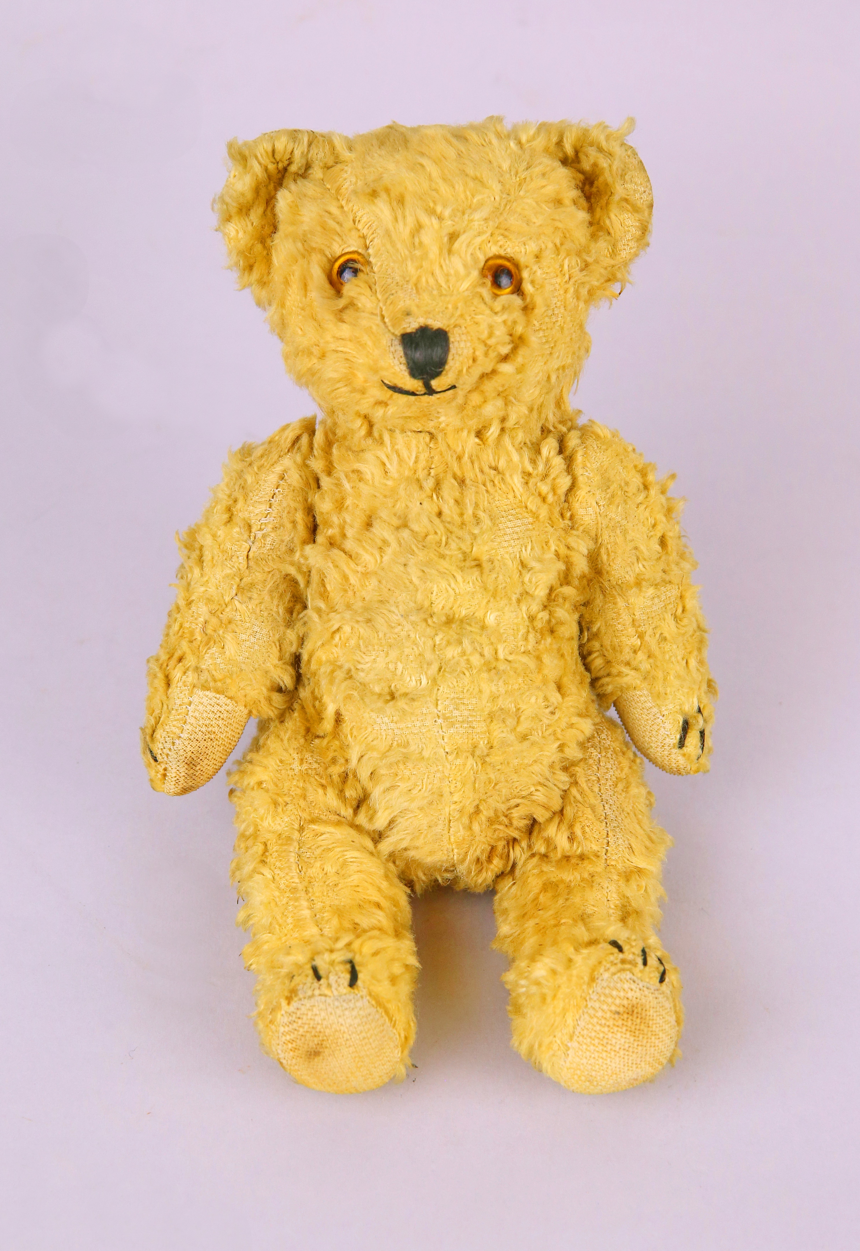 Teddy bear, toy.